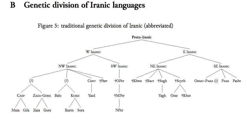 Linguistic chart by Nicholas Kontovas on Iranic languages